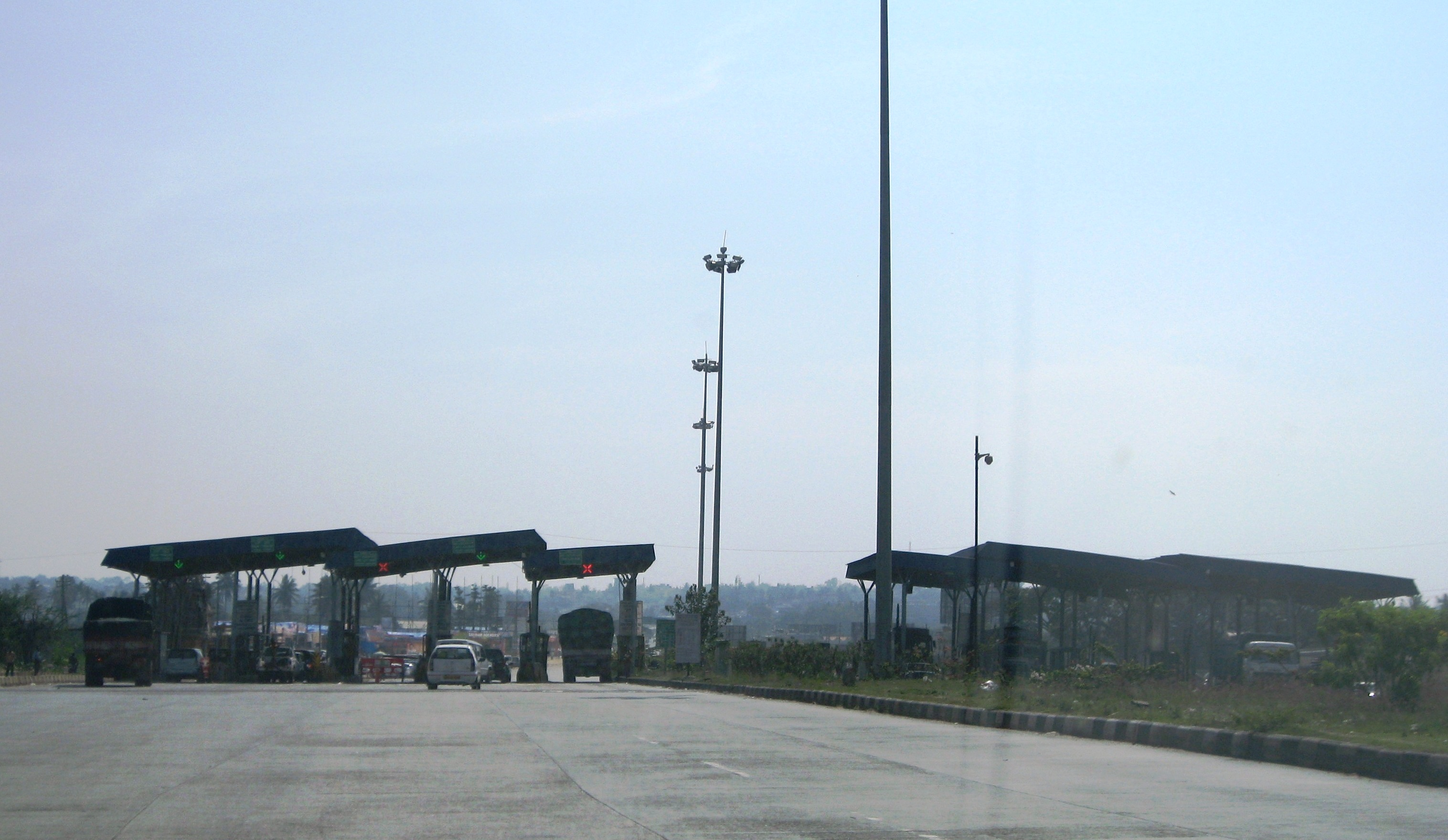 Attibele Toll Plaza on NH 44/48 (Former NH 7)